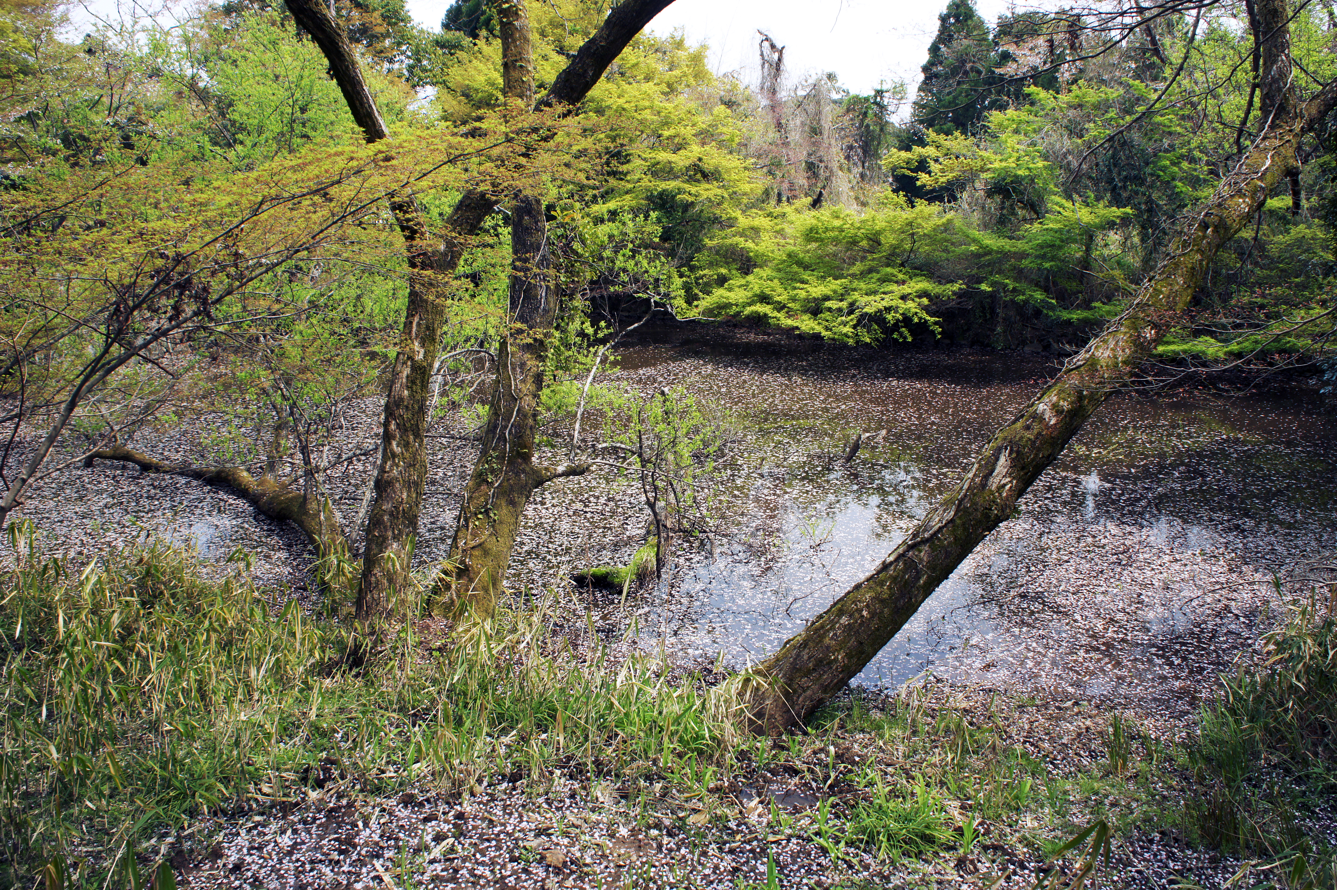 Shoji-ji in Nishikyo-ku, Kyoto, Kyoto prefecture, Japan